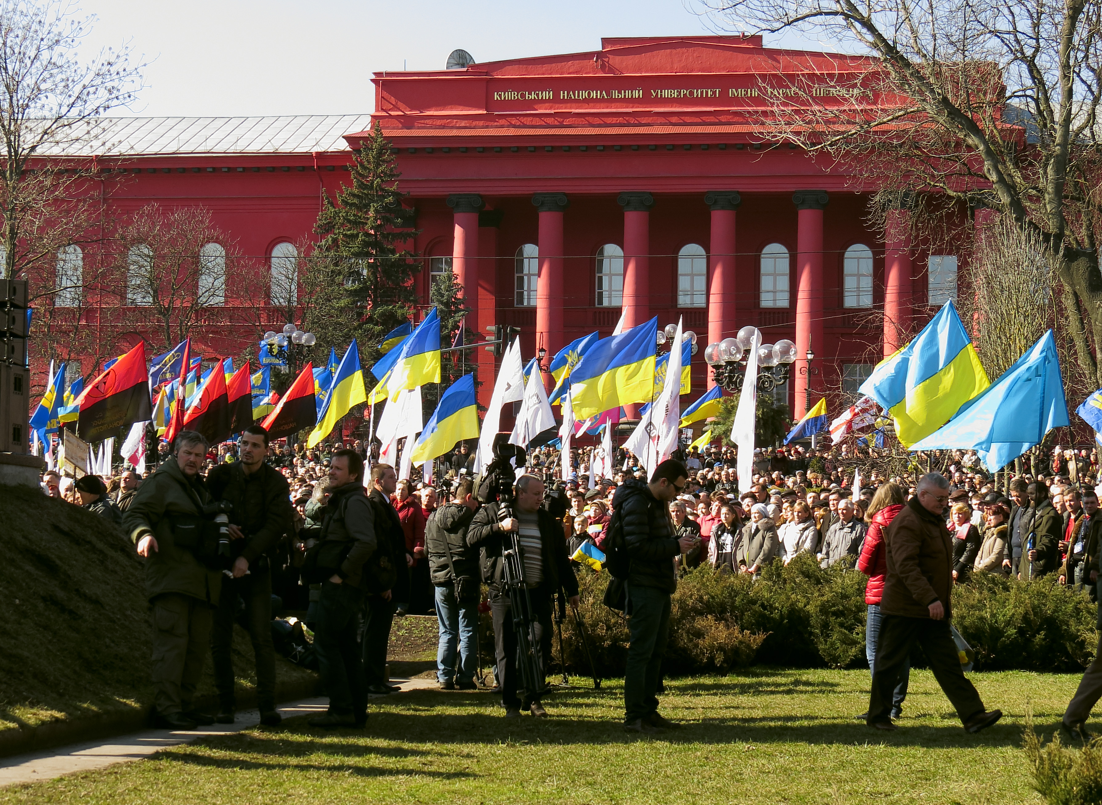 Kiev, Shevchenko park. Meeting on celebrations for the 200th anniversary of the birth of Taras Shevchenko.